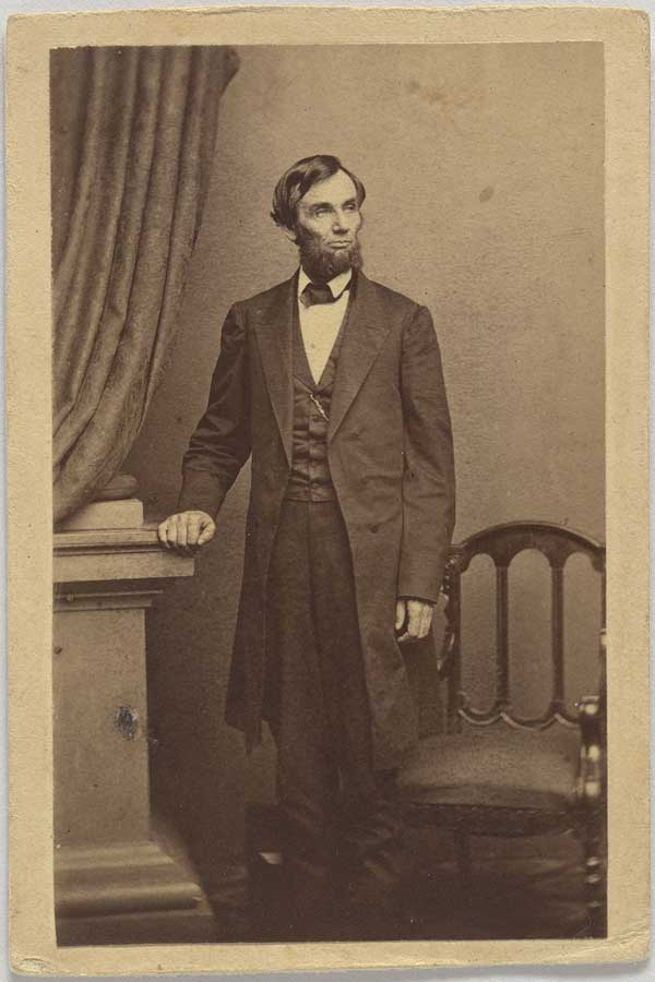 Description: ?All quiet along the Potomac? Mathew Brady?s cameraman, Thomas Le Mere, thought that a standing pose of the president would be popular. Lincoln wondered if it could be accomplished in one shot, and this is the successful result. It was taken on April 17, 1863, an interregnum after an eventful winter that saw the implementation of the Emancipation Proclamation on January 1 and a further reshuffling of the command of the Army of the Potomac following the disastrous Union defeat at Fredericksburg on December 13, 1862. Joseph Hooker replaced the hapless Ambrose Burnside, refitted the army, and prepared to move south. Striking Lee at Chancellorsville on May 1, Hooker obtained a strong initial advantage but was undone by Lee and ?Stonewall? Jackson?s audacious flank attack on the Union right, just as the sun set on the battle?s first day. Demoralized, Hooker withdrew, allowing Lee to invade the North for the second time. Studio: Mathew Brady Studio Creator/Photographer: Thomas Le Mere Medium: Albumen silver print Dimensions: 8.6 cm x 5.4 cm Date: 1863 Persistent URL: [1] Repository: National Portrait Gallery Accession number: NPG.79.151